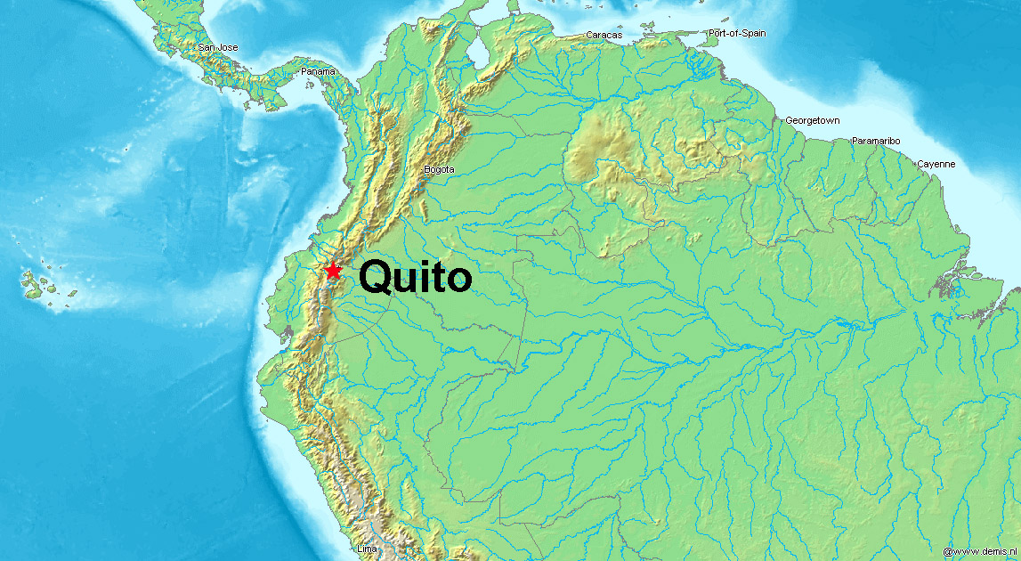 Locator map of San Francisco de Quito